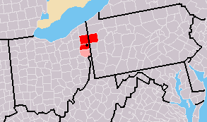 Map of Youngstown-Warren, OH-PA CSA Red: Youngstown-Warren-Boardman, OH-PA MSA Rose: Salem, OH µSA Dot: City of Youngstown, OH